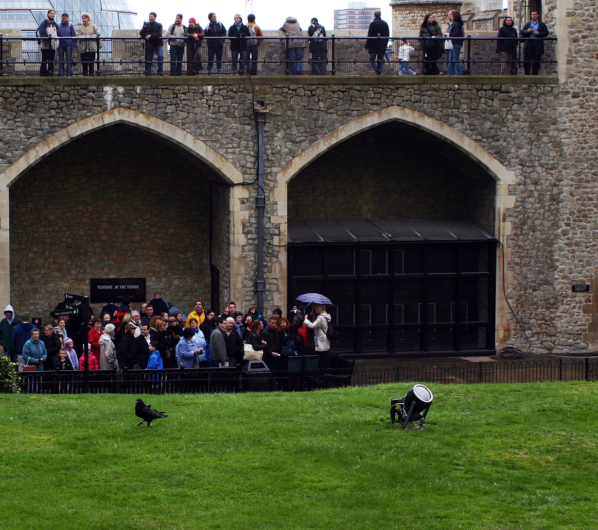 Tourists observing a raven in the Tower of London